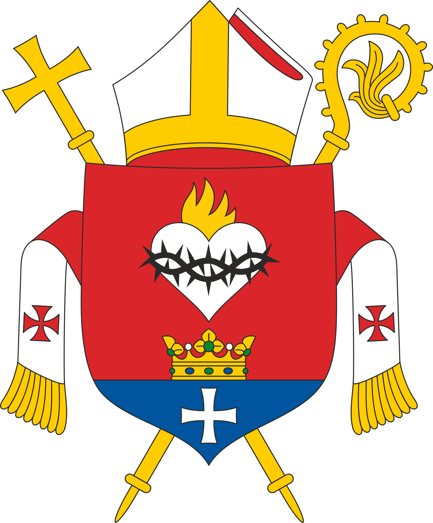 Coat of arms of Diocese since September 2019